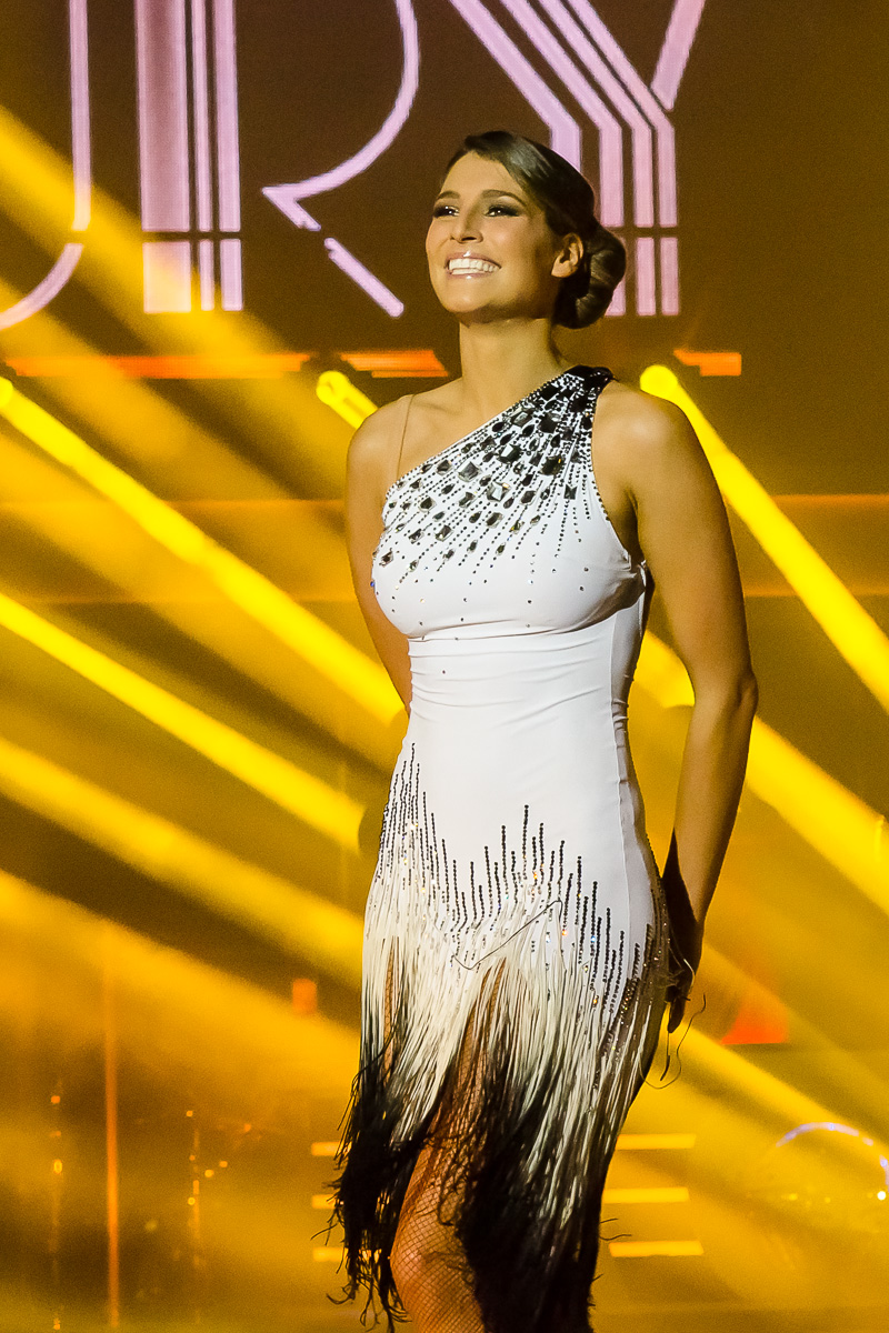 Miss France 2011, Laury Thilleman during Dance avec les stars Tournée in Lyon